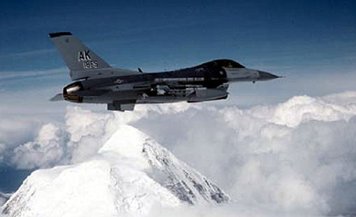 F-16CG of the 18th Fighter Squadron - Eielson AFB Alaska